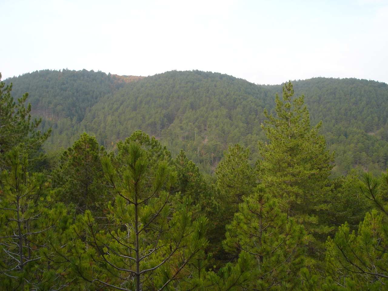 Beyaz Tepe peak on Sredna Mountain, Macedonia